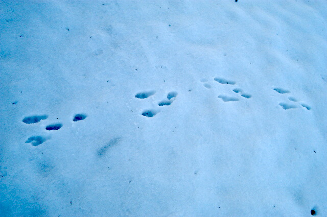 Oryctolagus cuniculus tracks on snow, from Commanster, Belgian High Ardennes (50°15'20``N,5°59'58``E)